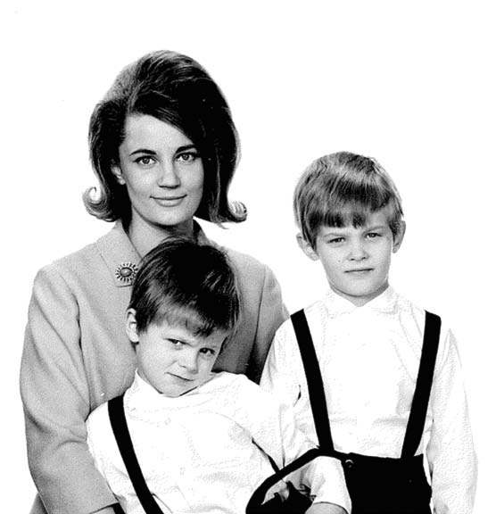 Photograph of the Finnish designer Pi Sarpaneva (1933–2019) with his sons Polo (1957–) and Tom (1955–).